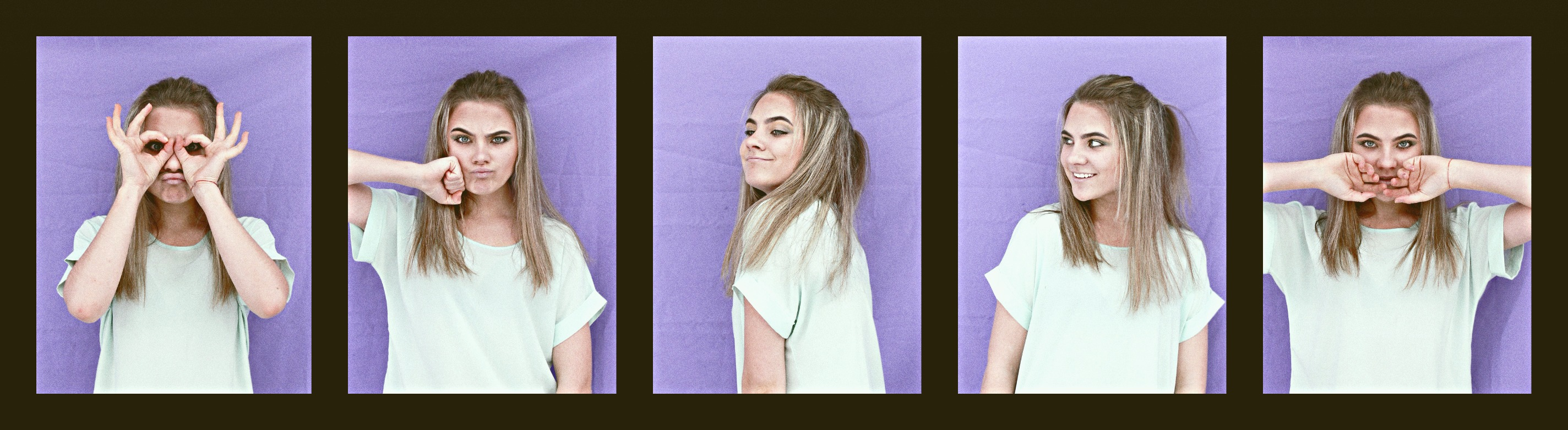 Model Model Evropa